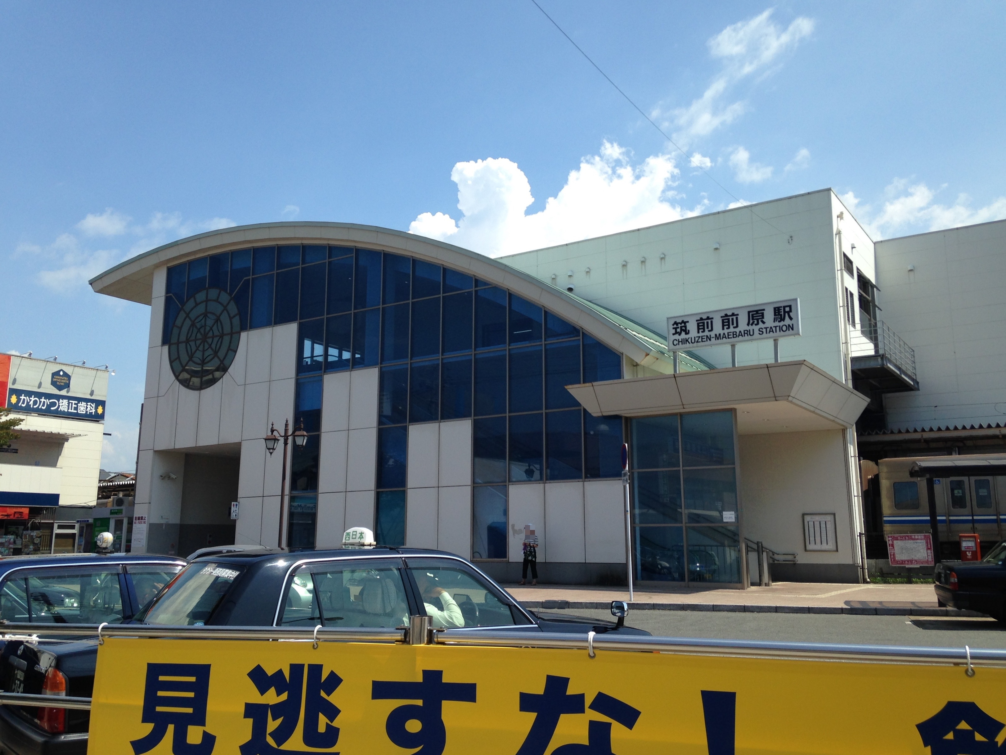 Chikuzen-Maebaru Station